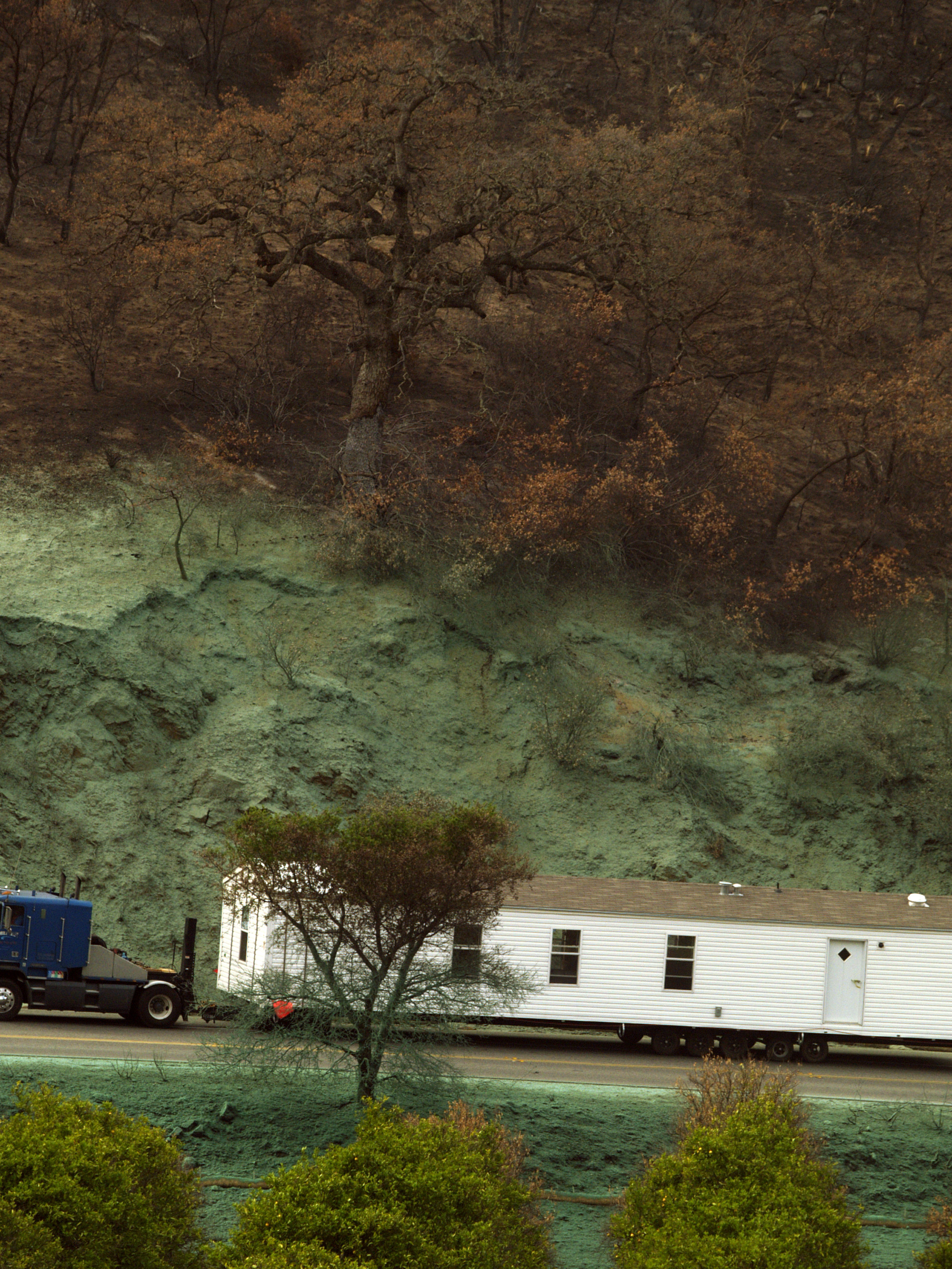 Pauma Valley, CA, November 28, 2007 -- A mobile home is towed to its destination through the Rincon Indian Reservation and into the La Jolla Indian Reservation in Southern California. Mobile homes are being used for housing in the wake of the devastating wild fires that swept through the area. The green on the ground is what remains of fire retardant used when firefighters fought the wild fires last month. Amanda Bicknell/FEMA